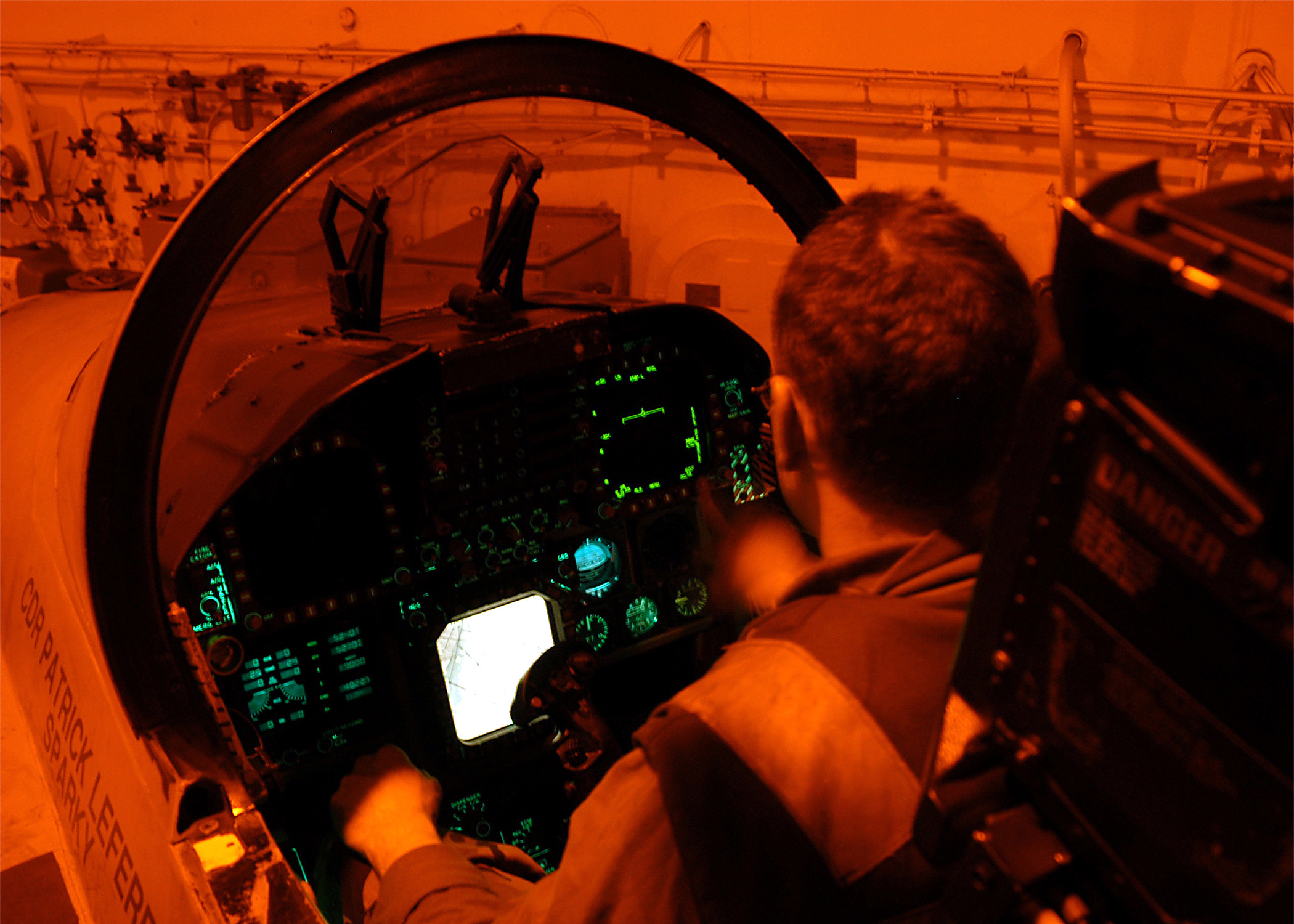 Indian Ocean (Feb, 26, 2004) – Aviation Electronics Technician 2nd Class Jeremy Snipes, of Jacksonville, Fla., performs an operational check of aircraft instrumentation in the cockpit of an F/A-18C Hornet assigned to the “Knighthawks” of Strike Fighter Squadron One Three Six (VFA-136) in the hangar bay aboard USS George Washington (CVN 73). The Norfolk, Va.-based nuclear powered aircraft carrier is on a scheduled deployment. U.S. Navy photo by Photographer’s Mate Airman Janice Kreischer. (RELEASED)